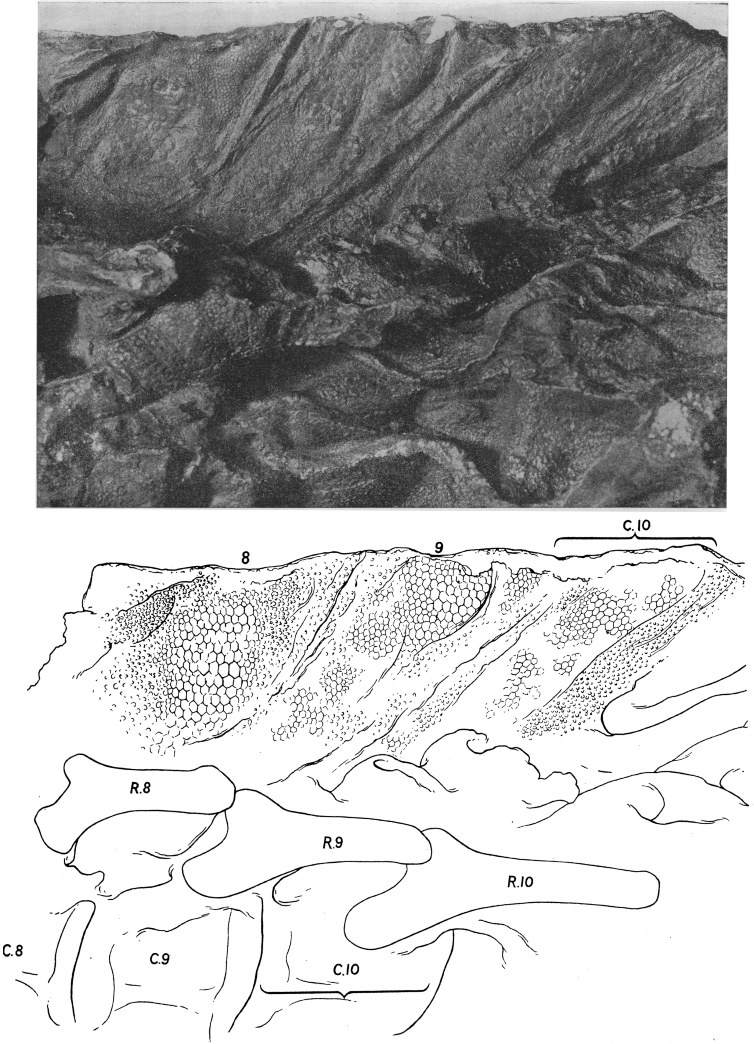 Part of the neck of the Edmontosaurus mummy AMNH 5060 that has previously been interpreted as a skin frill. Photograph (above) and interpretive drawing (below). Abbreviations. C8–10: Eight to tenth neck vertebra. R8–10: Eigth to tenth neck rib. 8–10: Skin segments comprising the frill. Modified from Osborn, 1912.